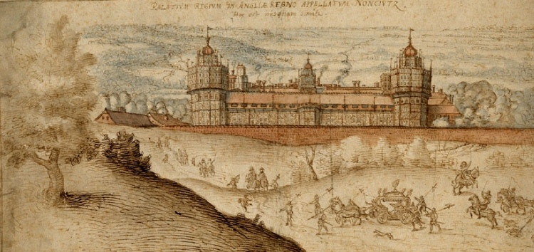 Joris Hoefnagel - 1568 - Drawing of Nonsuch Palace